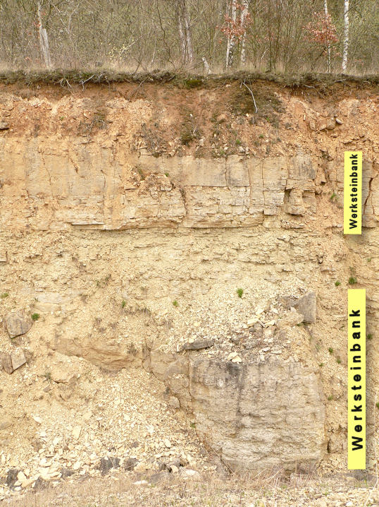 Succession of limestones of the Lower Muschelkalk exposed in the geotouristic quarry near Königslutter showing two beds of building stone, the so called „Elmkalkstein“. Theses beds stratigraphically are thought to be the “Schaumkalkbänke” in the upper part of the Lower Muschalkalk.